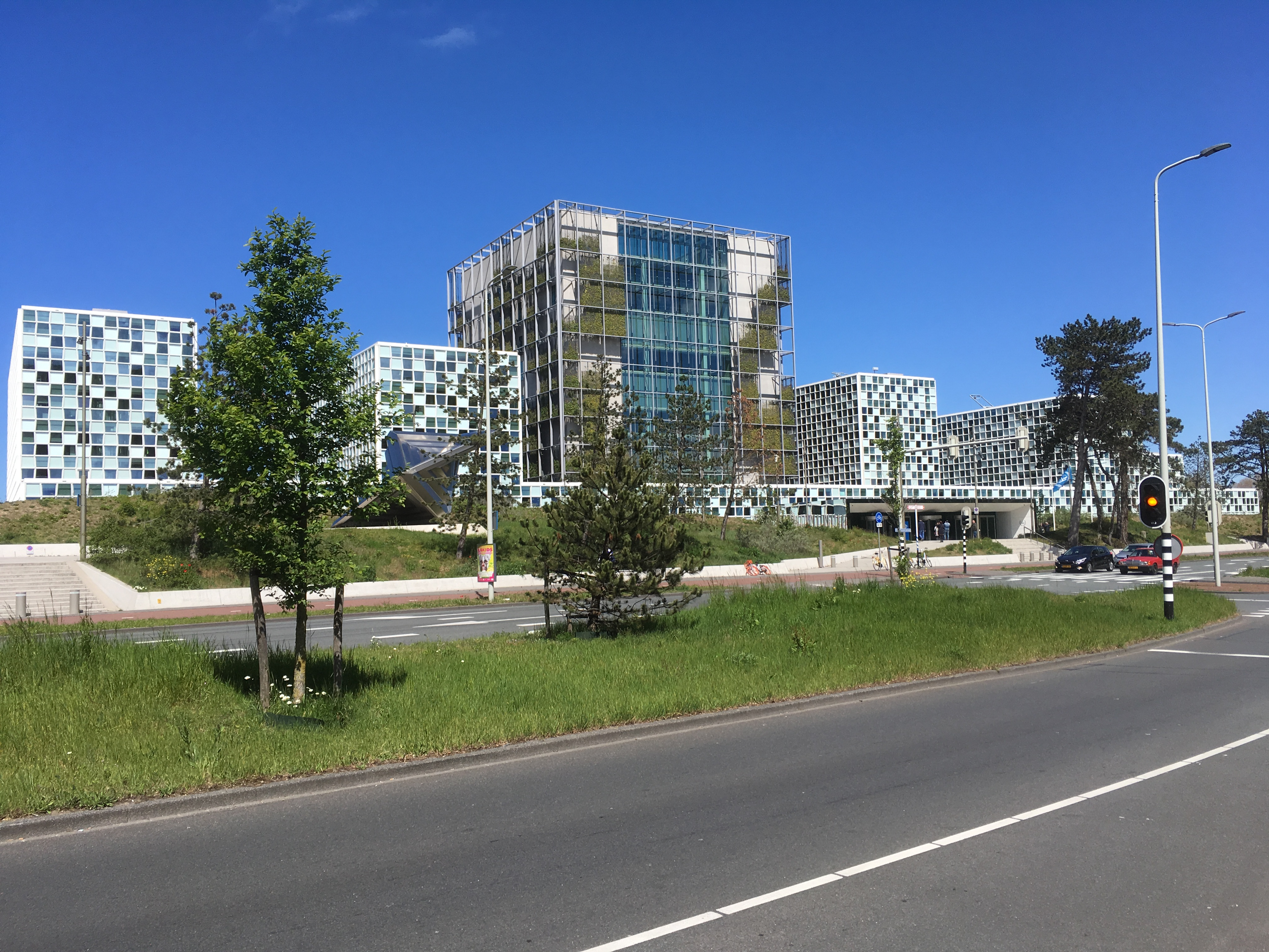 Building of the International Criminal Court (ICC) in The Hague in 2019.